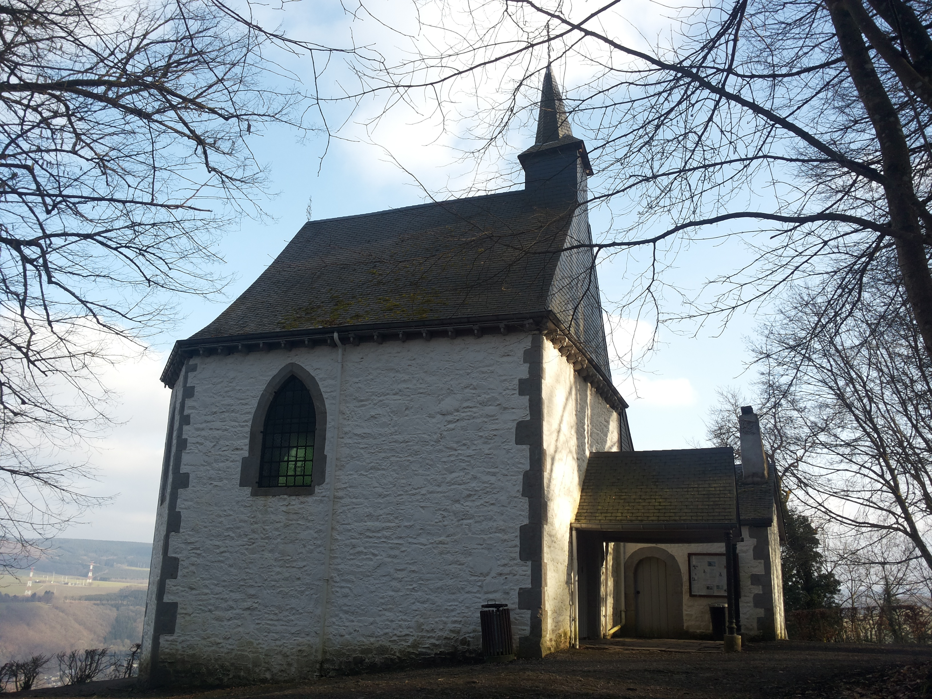 Hermitage and chapel of Saint-Thibaut, Marcourt, Rendeux, Belgium